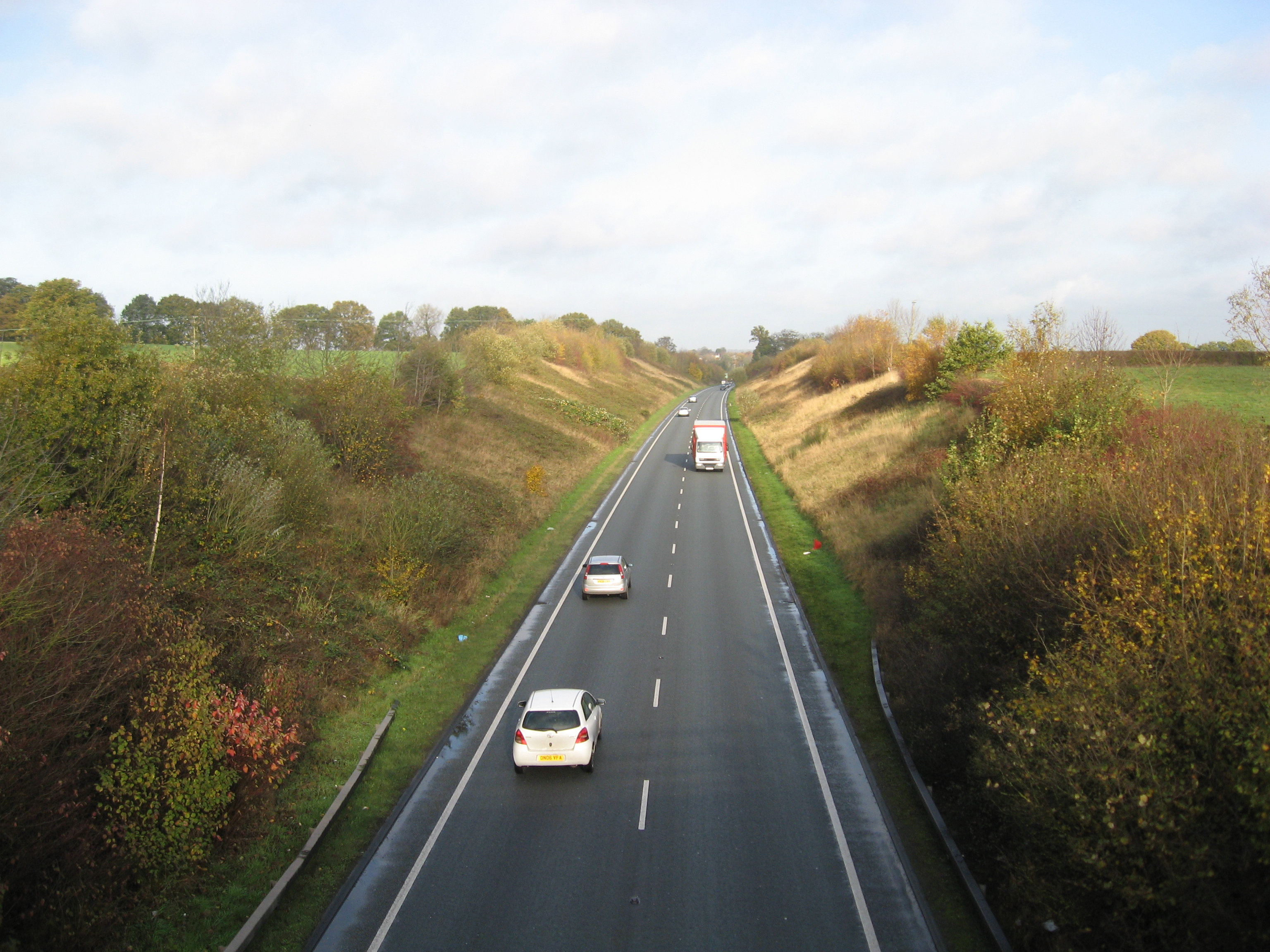 A533 road